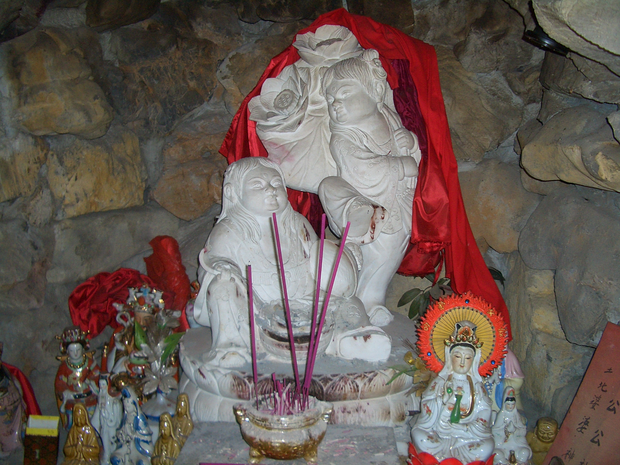 A small statue of Hé (和) and Hé (合), two Taoist immortals, in Changchun Temple, Wuhan